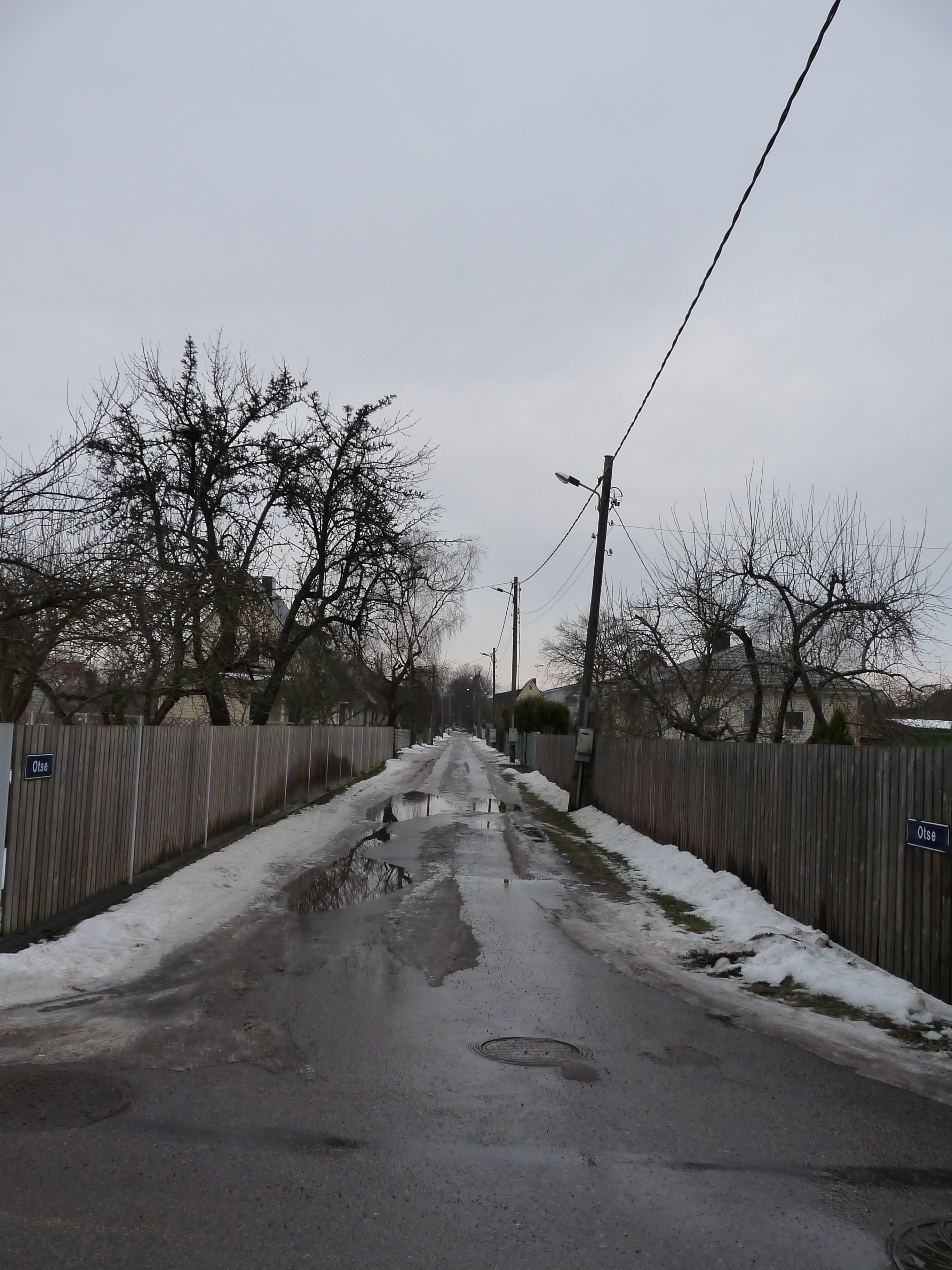 Otse street in Tallinn, Estonia